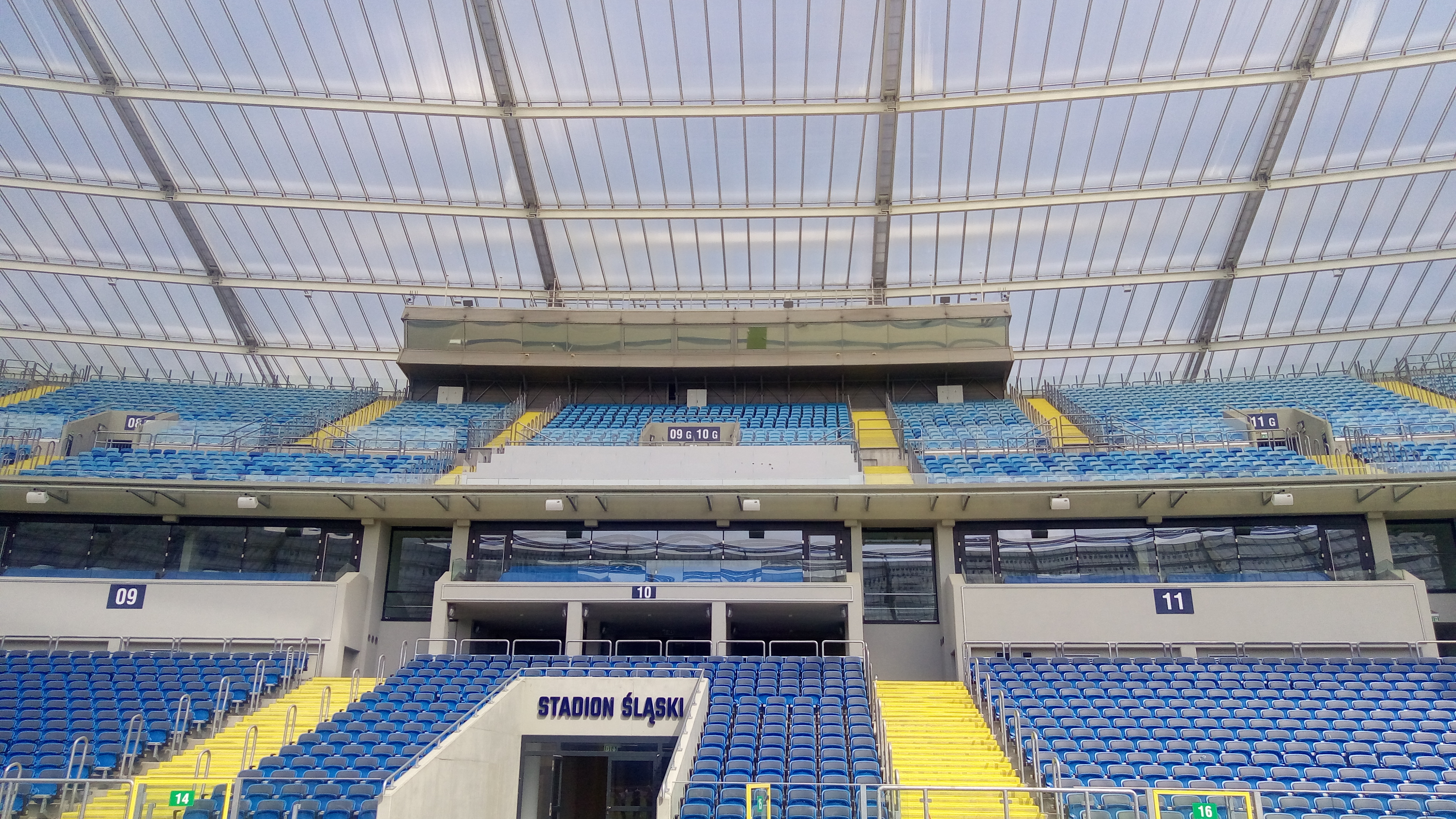 VIP lodge on Silesian Stadium, view from pitch